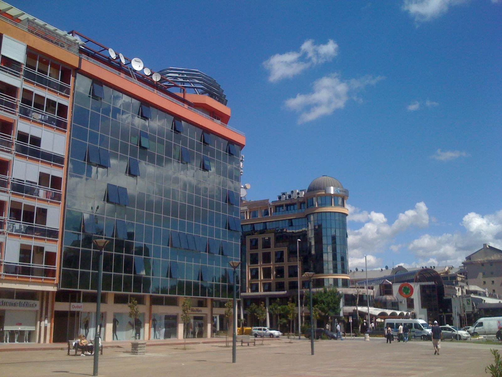 St. Peter of Cetinje square, Montenegro